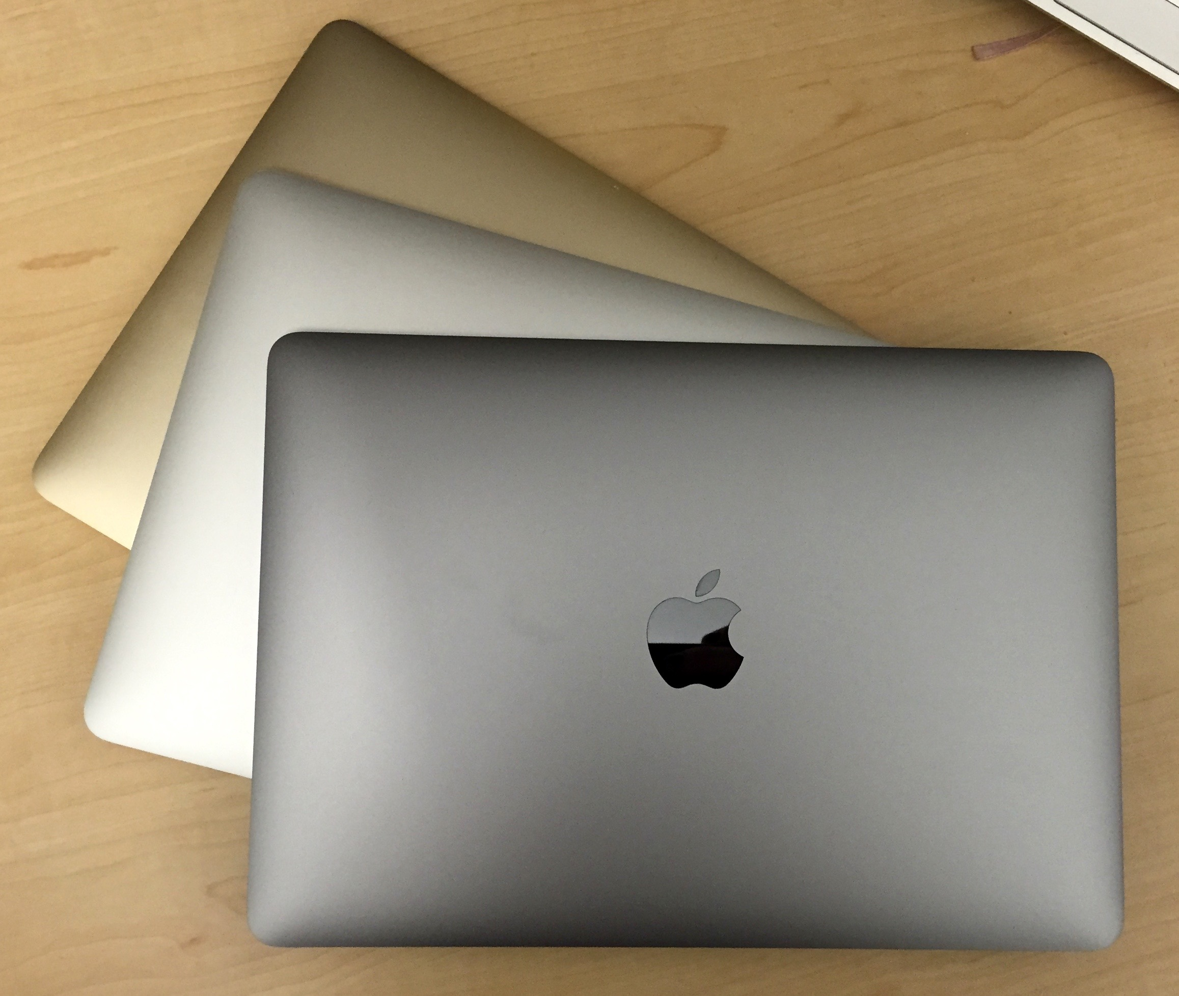 The 2015 revision of the Apple MacBook comes in three different colors; silver, space gray and gold.